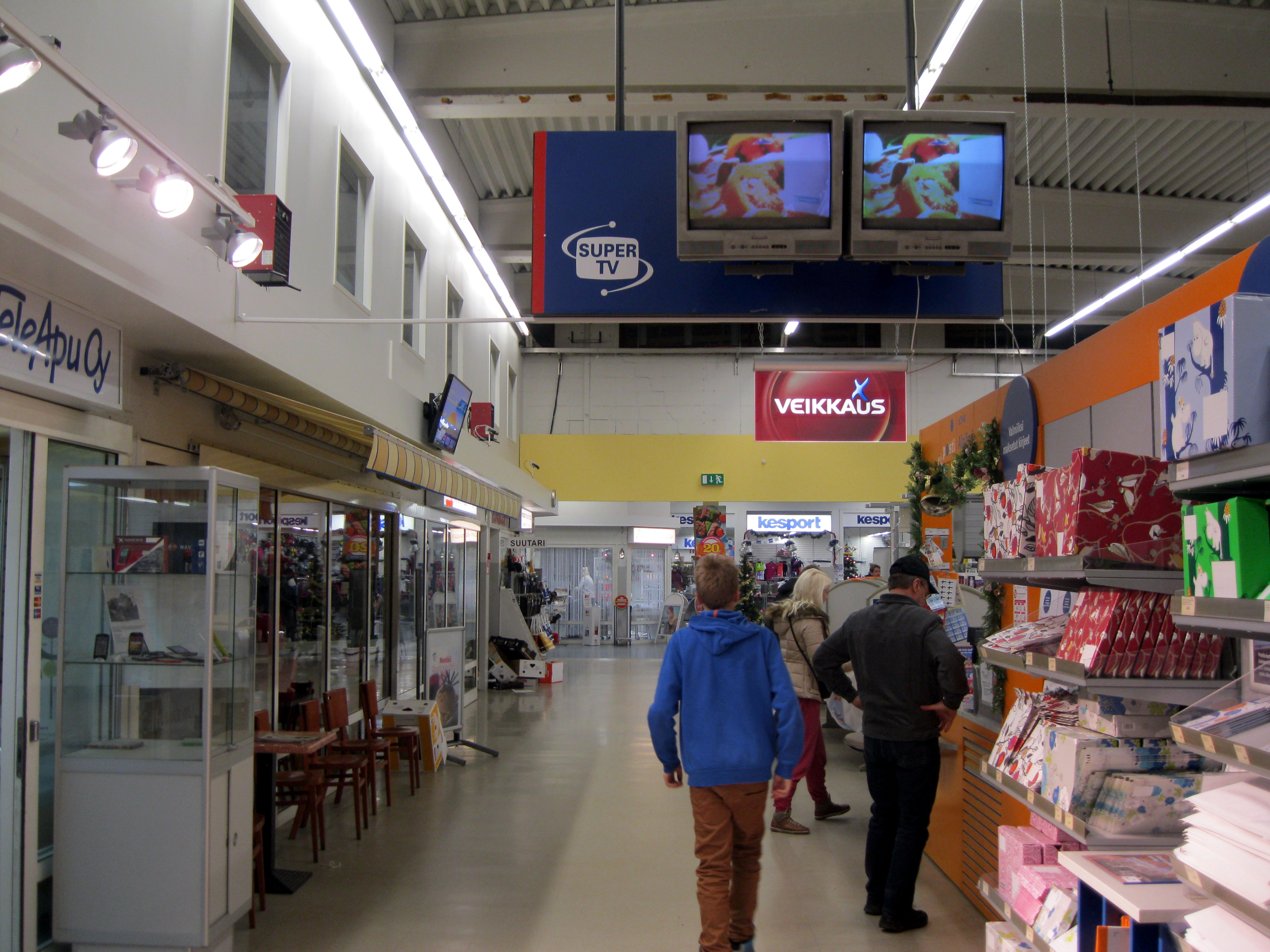 Maxiale -shopping mall in Alajärvi, Finland.